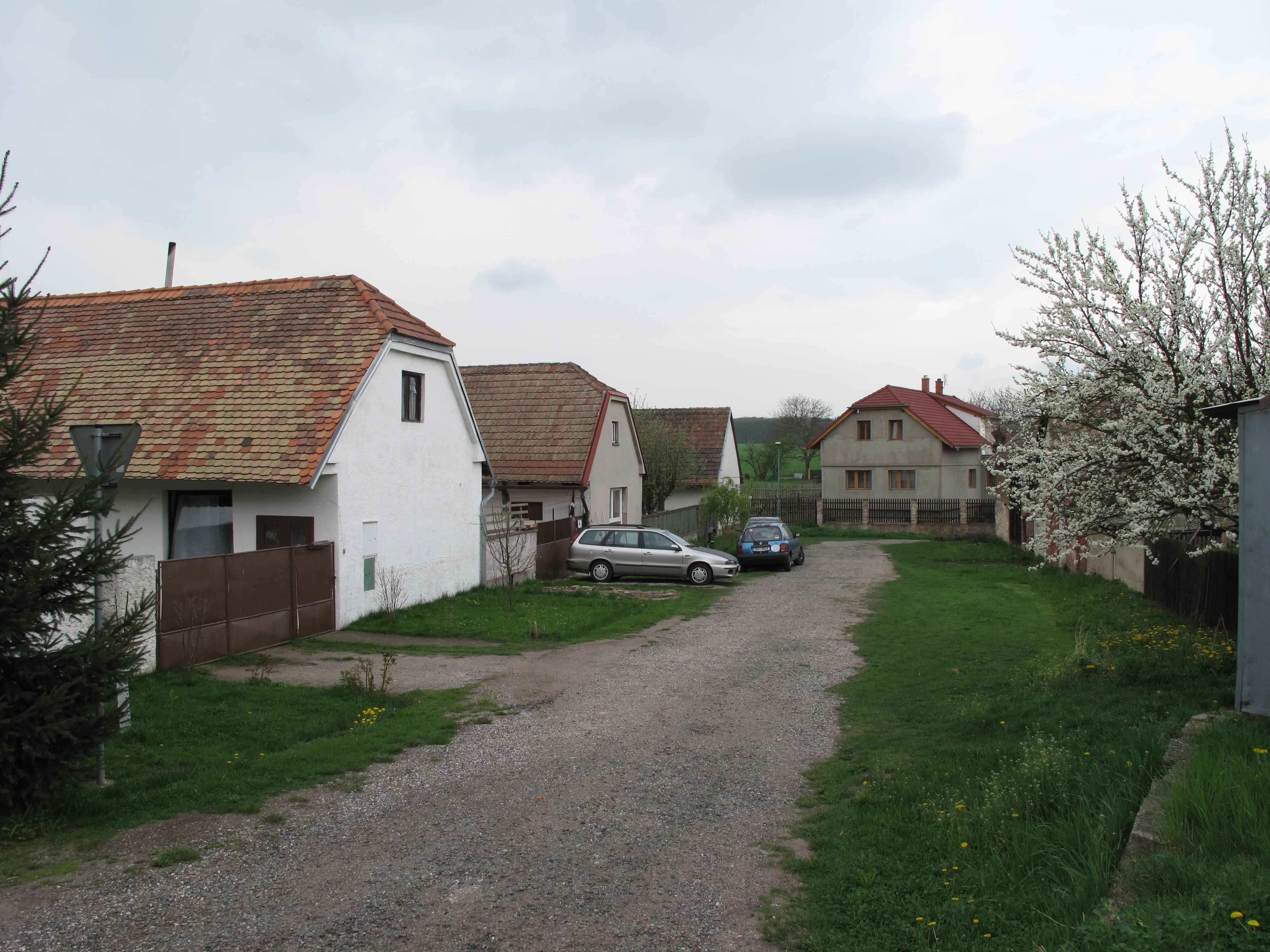 Cottages in Lovčice village, Hradec Králové District, Czech Republic.